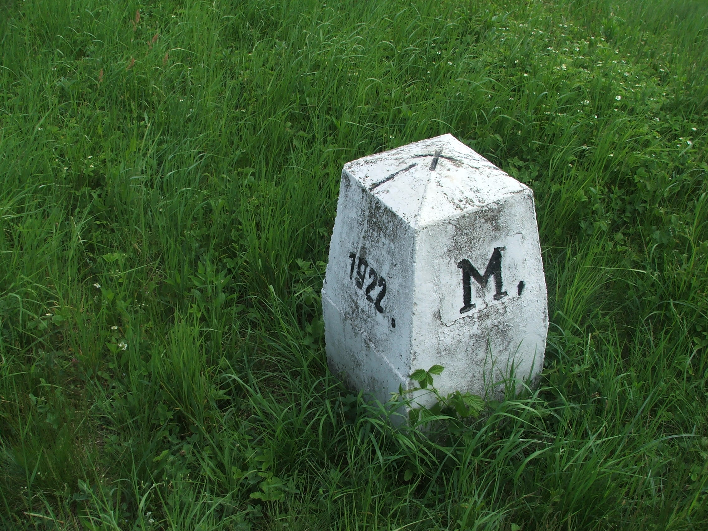 Border-mark between Hungary and Romania